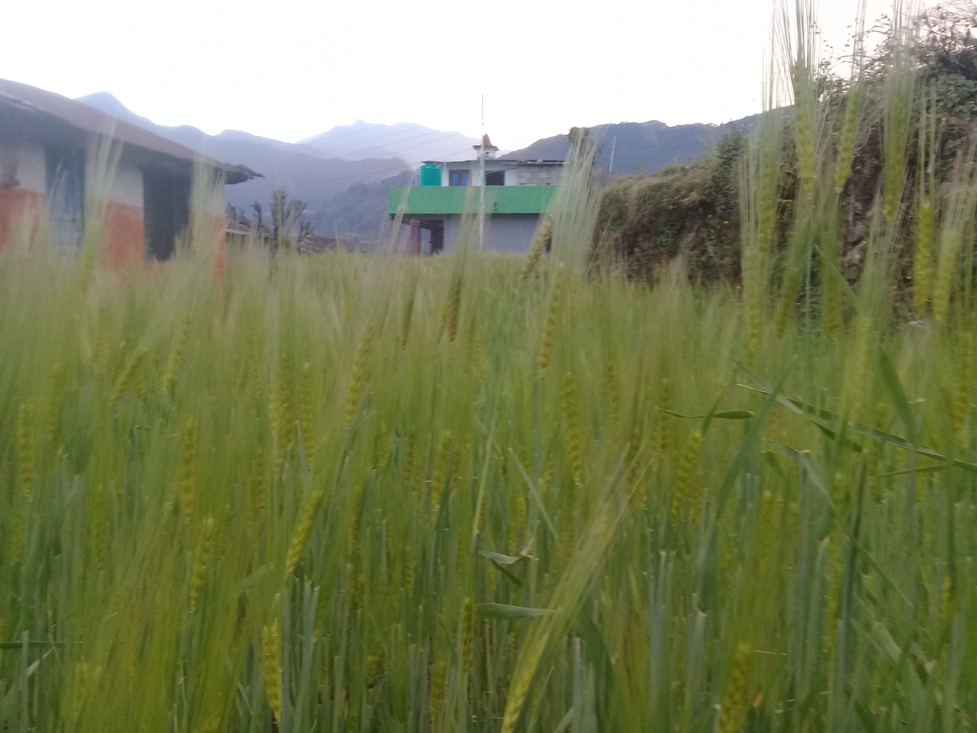 Nepalese harvest wheat in The winter months and wheat is the third largest crop after paddy and corn.Location: NepalEvent type: wheat just before harvestDate or year: 2019